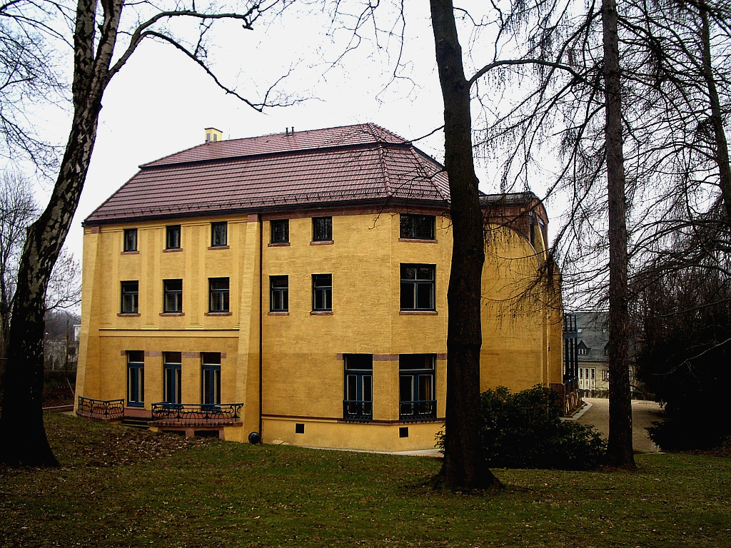 Chemnitz, Germany: Villa Esche by Henry van de Velde (1863–1957); rear view from Garden